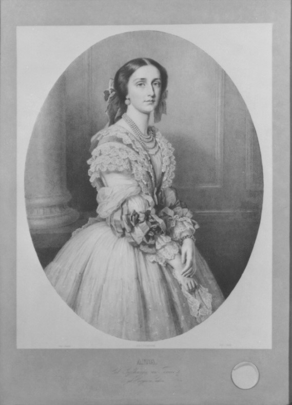 Anna Maria princess of Saxony (1836–1859), daughter of King John I of Saxony, first wife of Grandduke Ferdinand IV of Tuscany